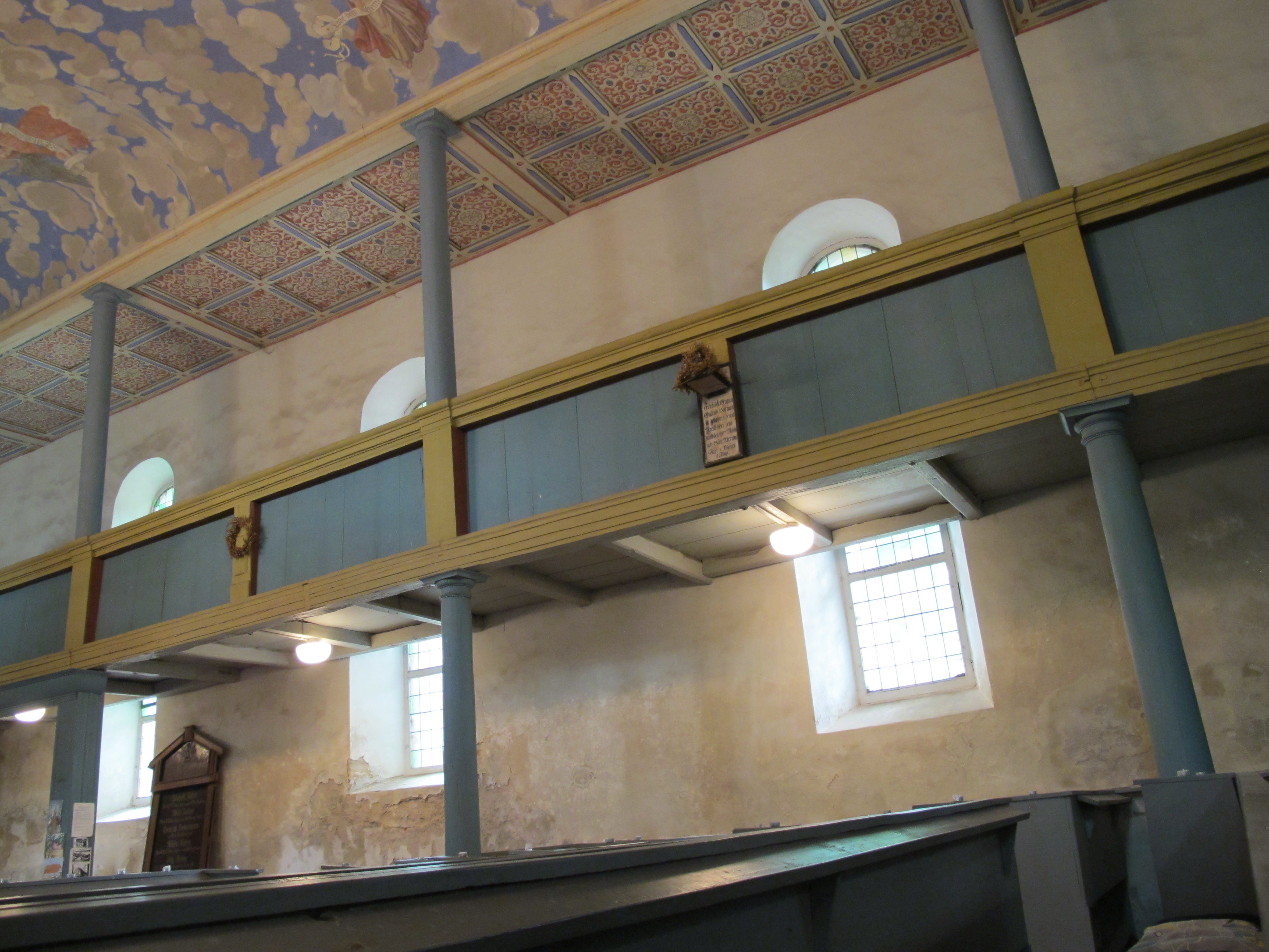 Klosterkirche Altfriedland, Germany, Wooden matronium on the interior south side